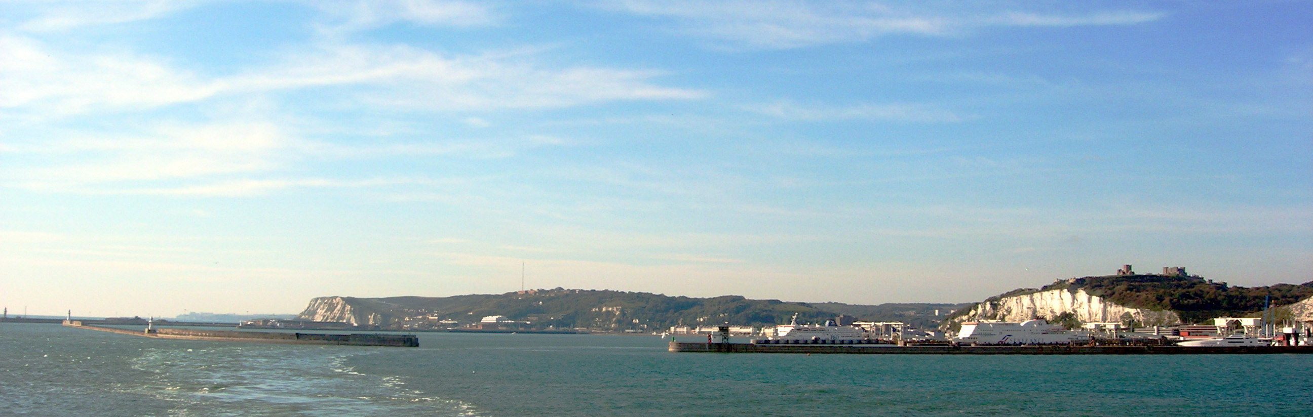 Description =Port de Douvres Source =Photo taken by Remi Jouan Date =Novembre 2006 Author =Remi Jouan